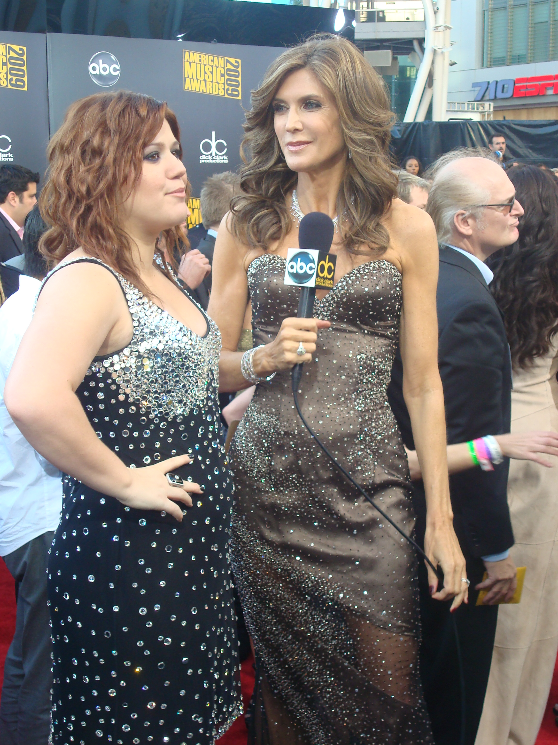 2009 American Music Awards Red Carpet